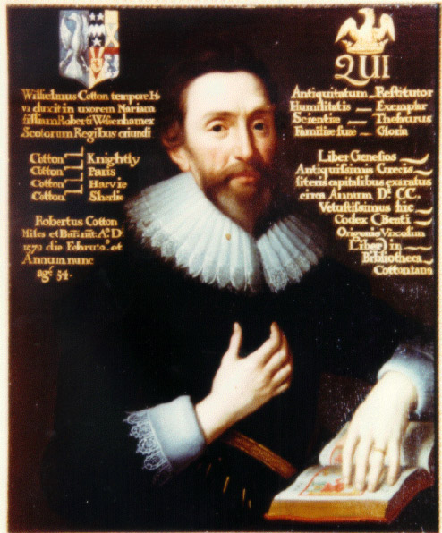 Portrait of Sir Robert Cotton, 1st Baronet (d.1631) of Connington. Collection of Society of Antiquaries, London. Arms of Cotton (Ancient): Argent, a bend sable between three pellets. The arrangement as seen on monuments in Exeter Cathedral to Bishop William Cotton (d.1621), Bishop of Exeter and on monument to his grandson Edward Cotton (d.1675), Treasurer of Exeter Cathedral, may be th result of 20th c. restoration.(See images[1]). William Cotton (fl.1378,1400) lord of the manor of Cotton in Cheshire, married Agnes de Ridware, daughter and heiress of Walter de Ridware, lord of the manor of Hamstall Ridware in Staffordshire.(Vivian, Lt.Col. J.L., (Ed.) The Visitations of the County of Devon: Comprising the Heralds' Visitations of 1531, 1564 & 1620, Exeter, 1895, pp.240-1) The junior branch of the Cotton family descended from Agnes de Ridware adopted the armorials of Ridware (Azure, an eagle displayed argent) [1] in lieu of their paternal arms of Cotton, which junior branch included Sir Robert Cotton, 1st Baronet, of Connington (1570-1631), founder of the Cottonian Library. The senior branch, of which Bishop Cotton was a member, retained the ancient arms of Cotton (Argent, a bend sable between three pellets). Arms: Cotton impaling Wessenham/Weasenham (of Norfolk?) (Sable, a fess dancette between three mullets pierced argent) of 4 quarters. Arms of Weasenham recorded by Weever in East Winch Church, Norfolk (The antiquities of King's Lynn By William Taylor (antiquary.), p.43[2]).